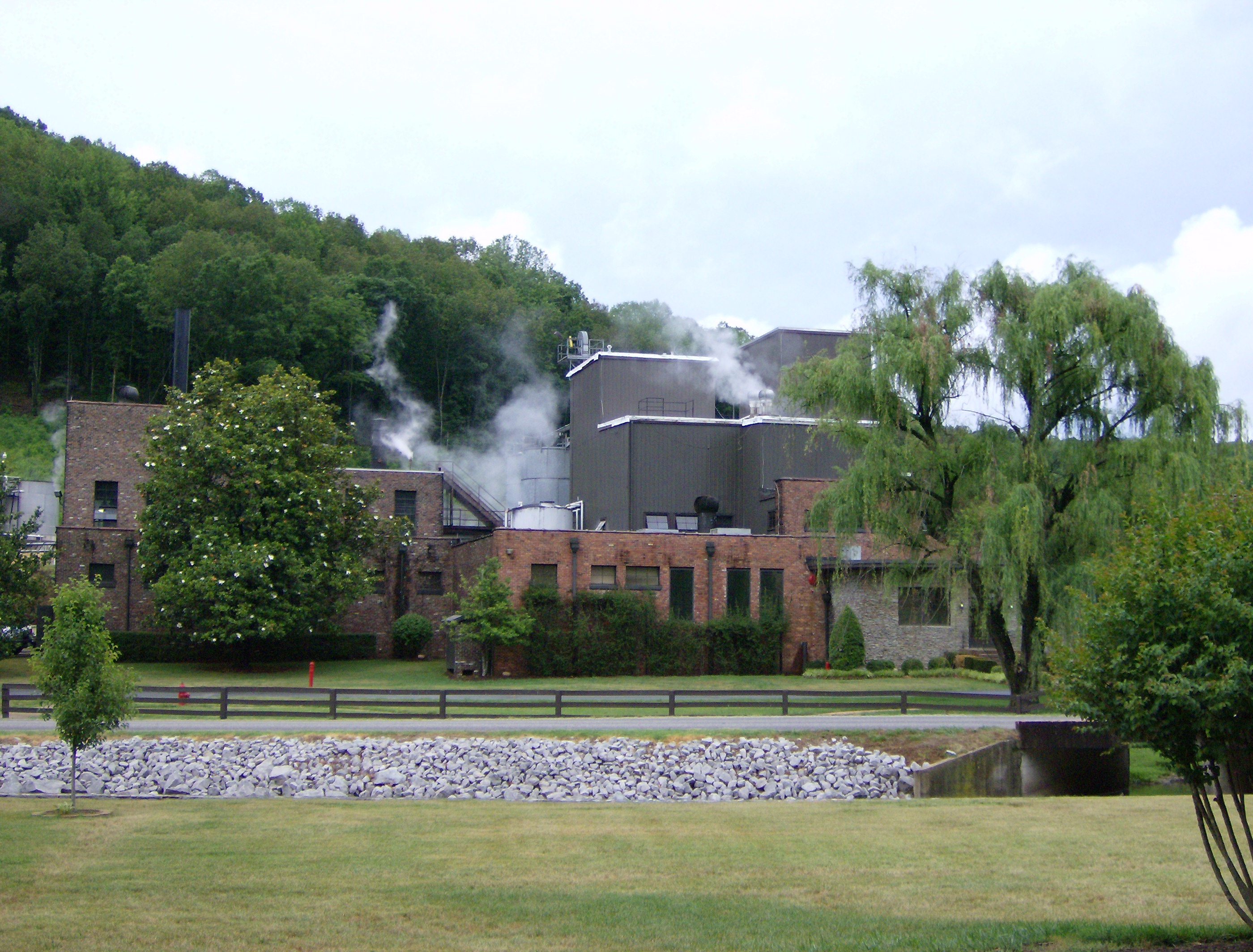 Image of the George Dickel distillery in Cascade Hollow, Tennessee. Taken by ProhibitOnions, 2007.